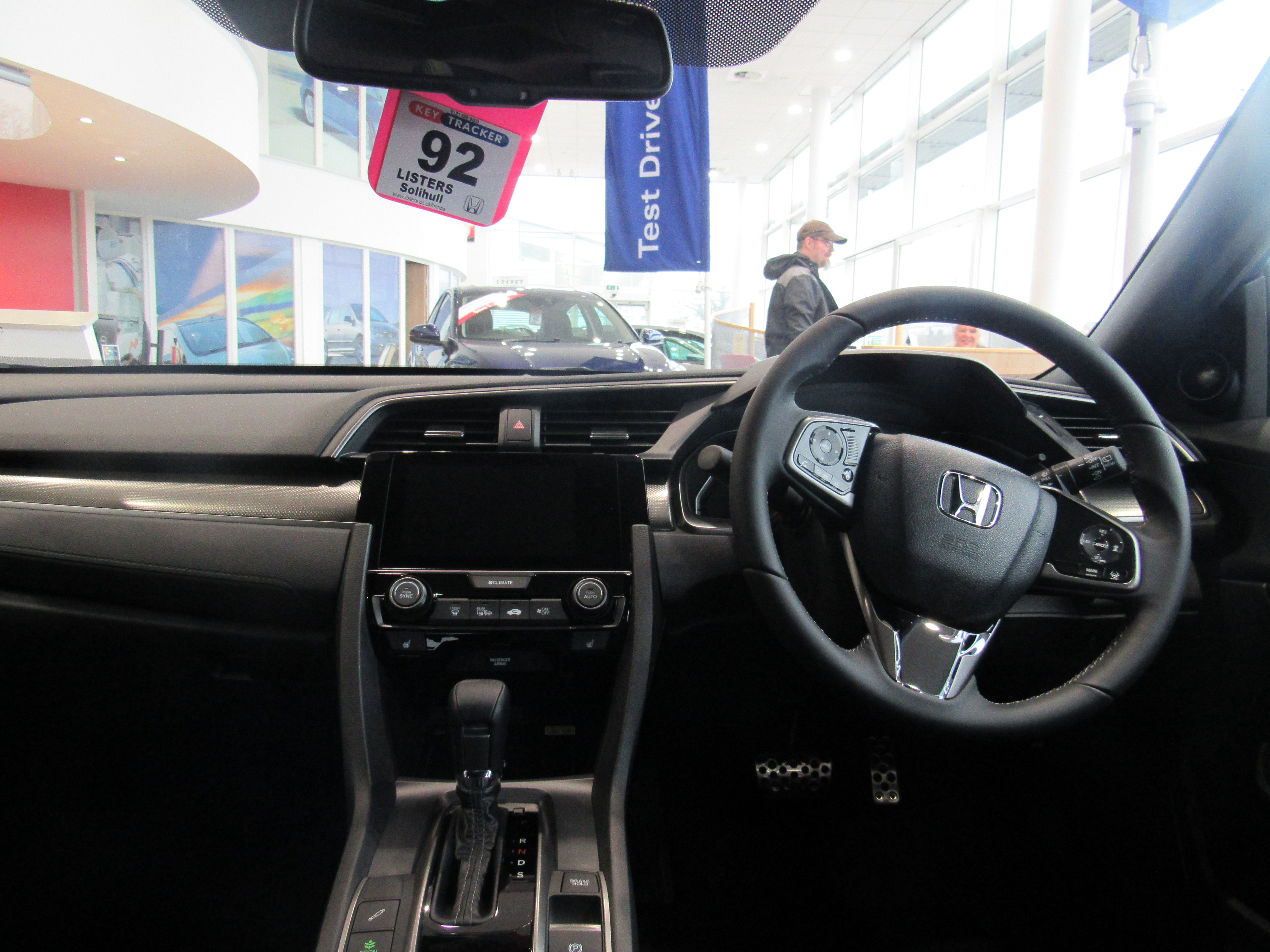 2017 Honda Civic Prestige VTEC CVT Automatic 1.5 Interior Taken in Listers Honda Solihull, Shirley, Solihull